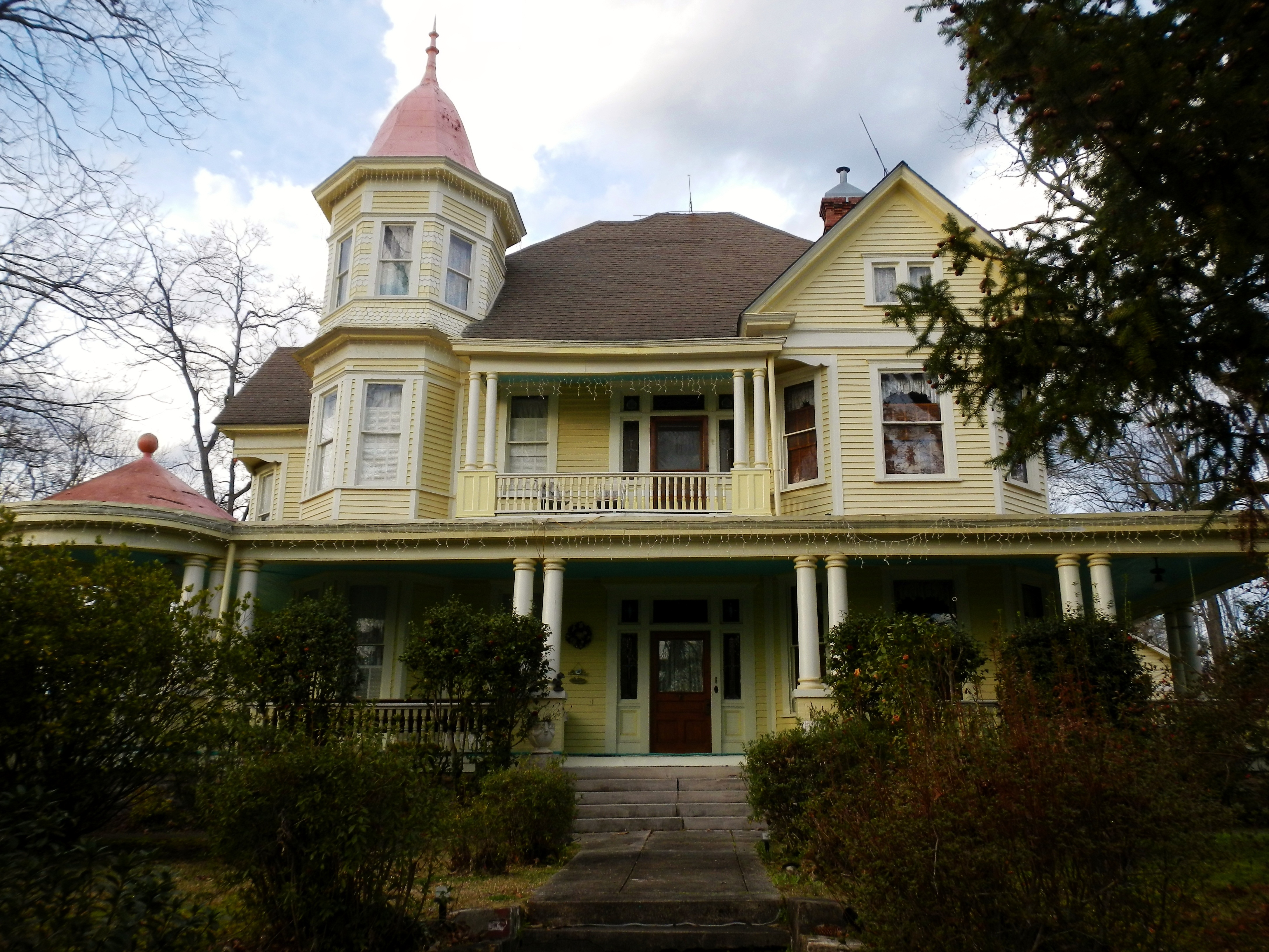 This is a photograph of the Reuben Herzfeld House located in Alexander City, Alabama. The house was built in 1890 and is listed on the National Register of Historic Places.